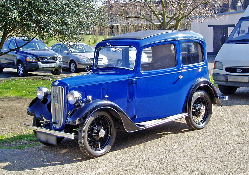 An Austin Seven saloon of an unknown type. Picture taken by me Ian Dunster in March 2006. This is a "New Ruby" model. This type was introduced in 1936. It can be distinguished from the Ruby by having round, as against square, corners to the side windows. Thanks - I've re-uploaded the image with a corrected filename. Ian Dunster 13:51, 16 October 2006 (UTC)